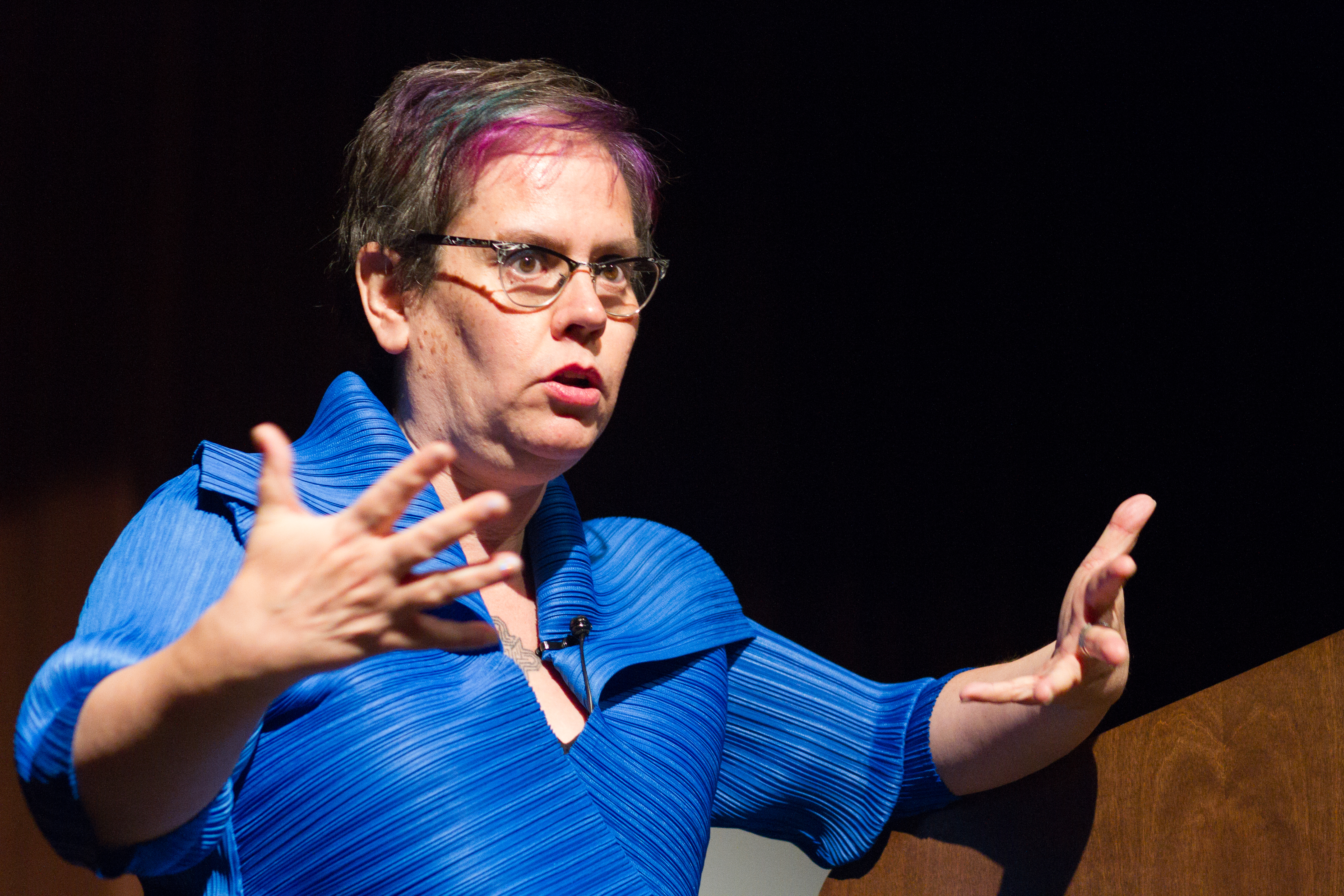 Greta Christina presenting, Coming out Atheist: how to do it, how to help each other do it, and why? at Skepticon 7